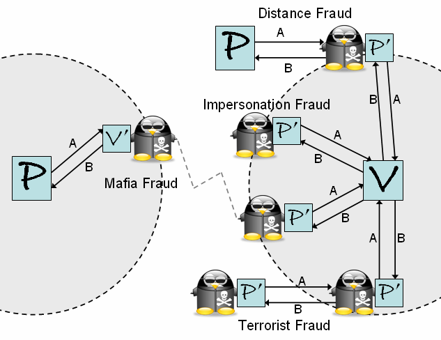 Attaques